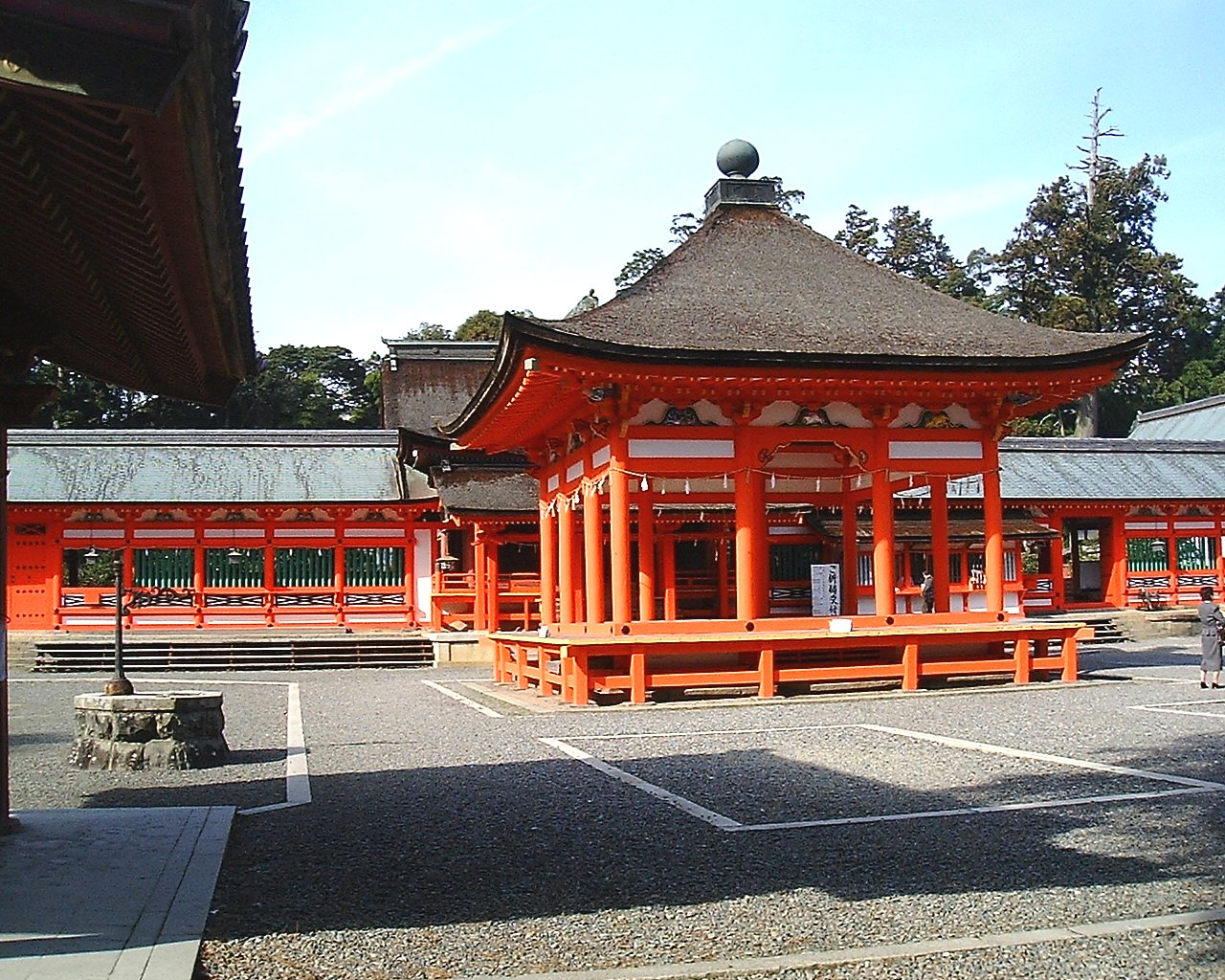 The Nangu Taisha shrine in Tarui, Gifu, Japan.